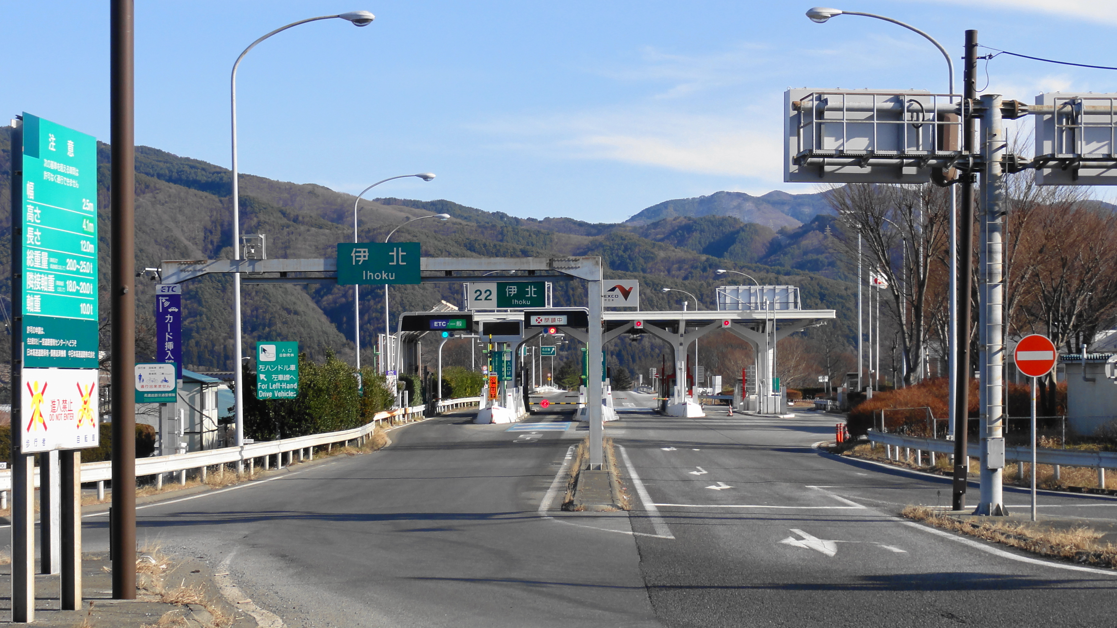 Ihoku Inter Change,Nagano Prefecture, Japan